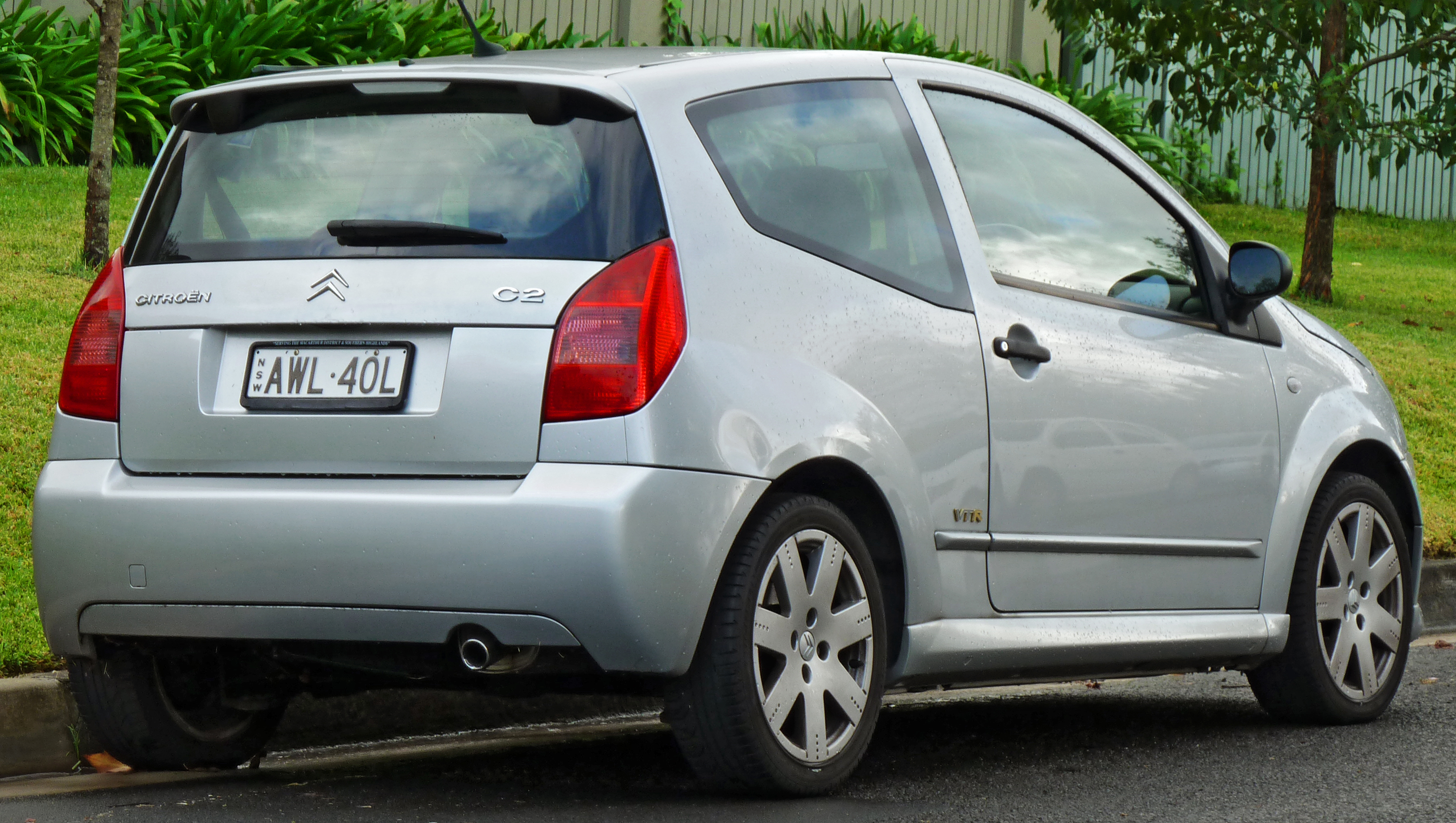 2004–2006 Citroën C2 VTR hatchback. Photographed in Lindfield, New South Wales, Australia.